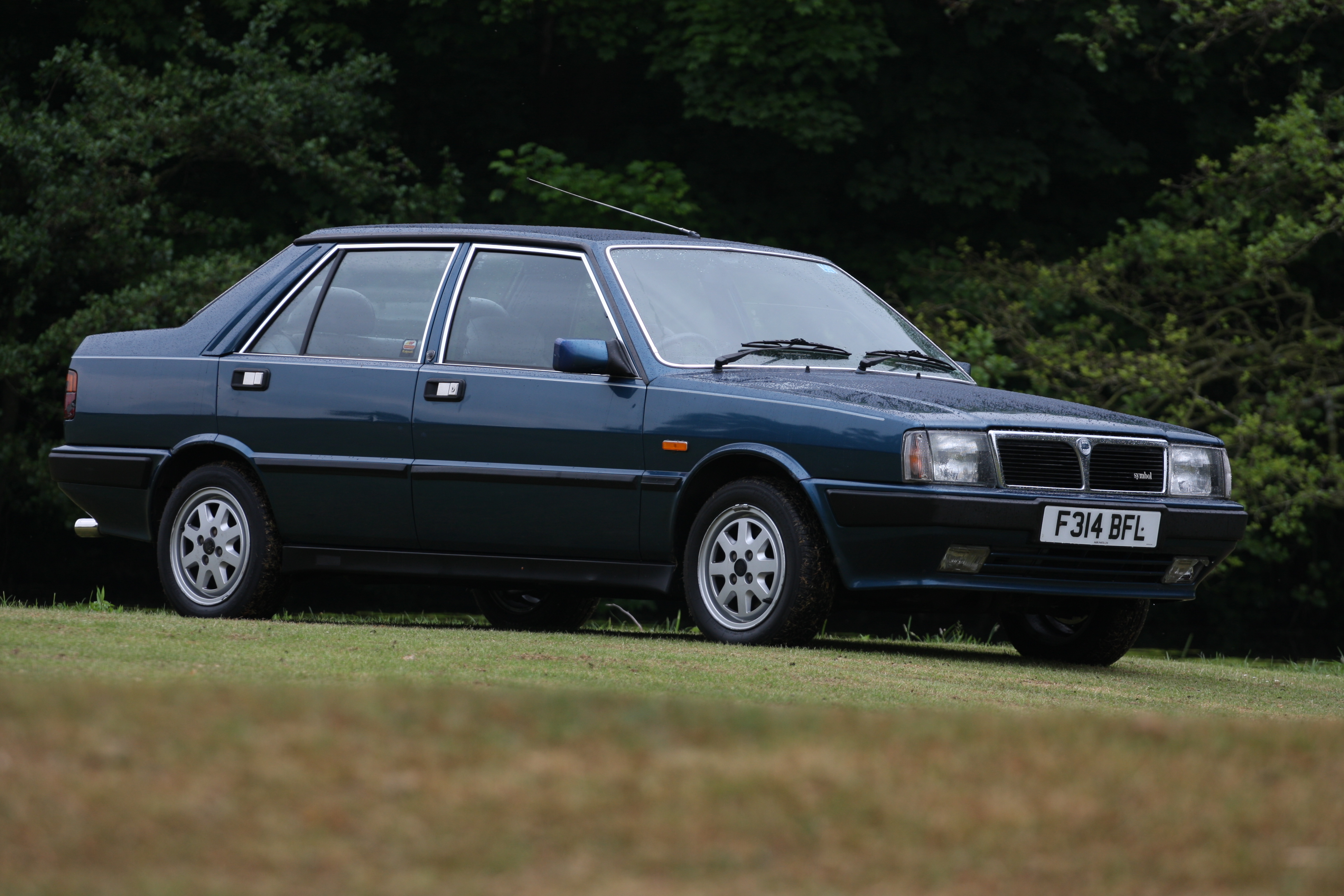 Auto Italia Stanford Hall June 2010